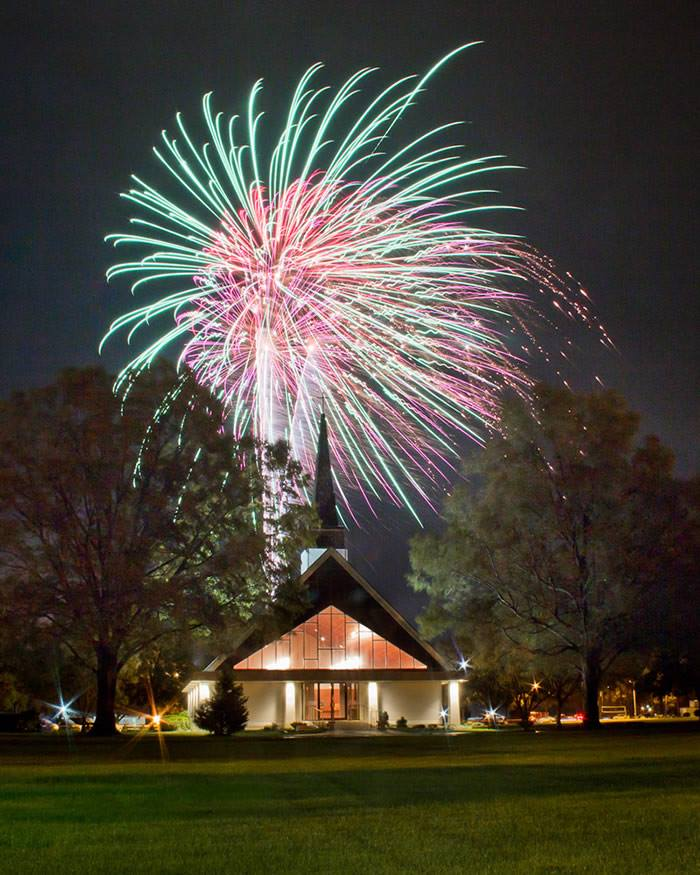 Fourth of July fireworks over Mount Olive College's Rogers Chapel.